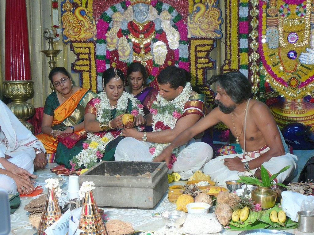 South Indian couple to be wed holding a fruit, seated in front of images of deity and behind a vessel made for the sacred fire. To the right a priest gives instruction. A woman to the left looks on with interest.